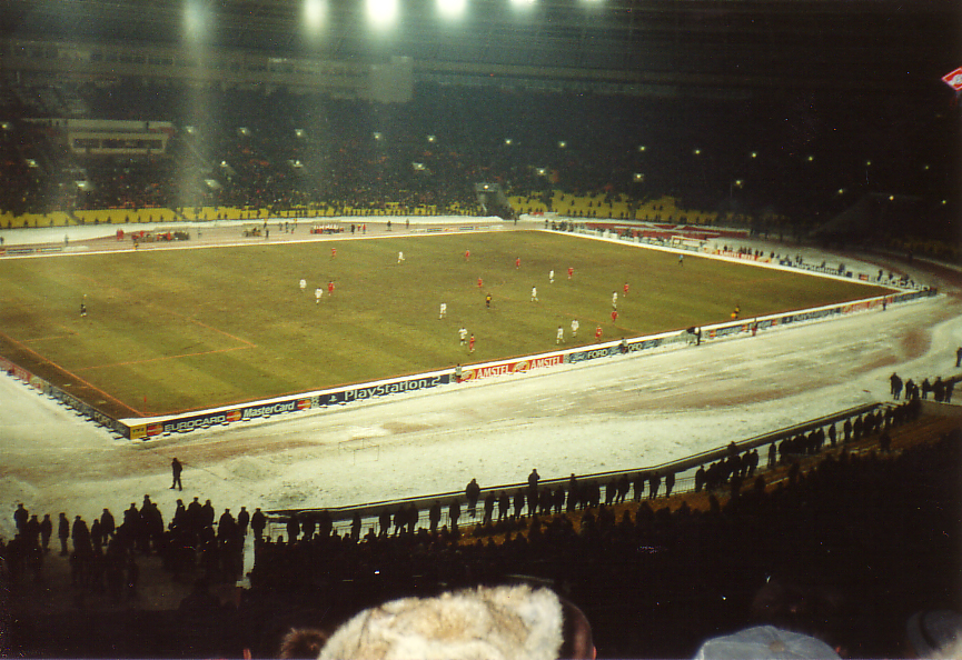 Inside view Luzhniki Stadium